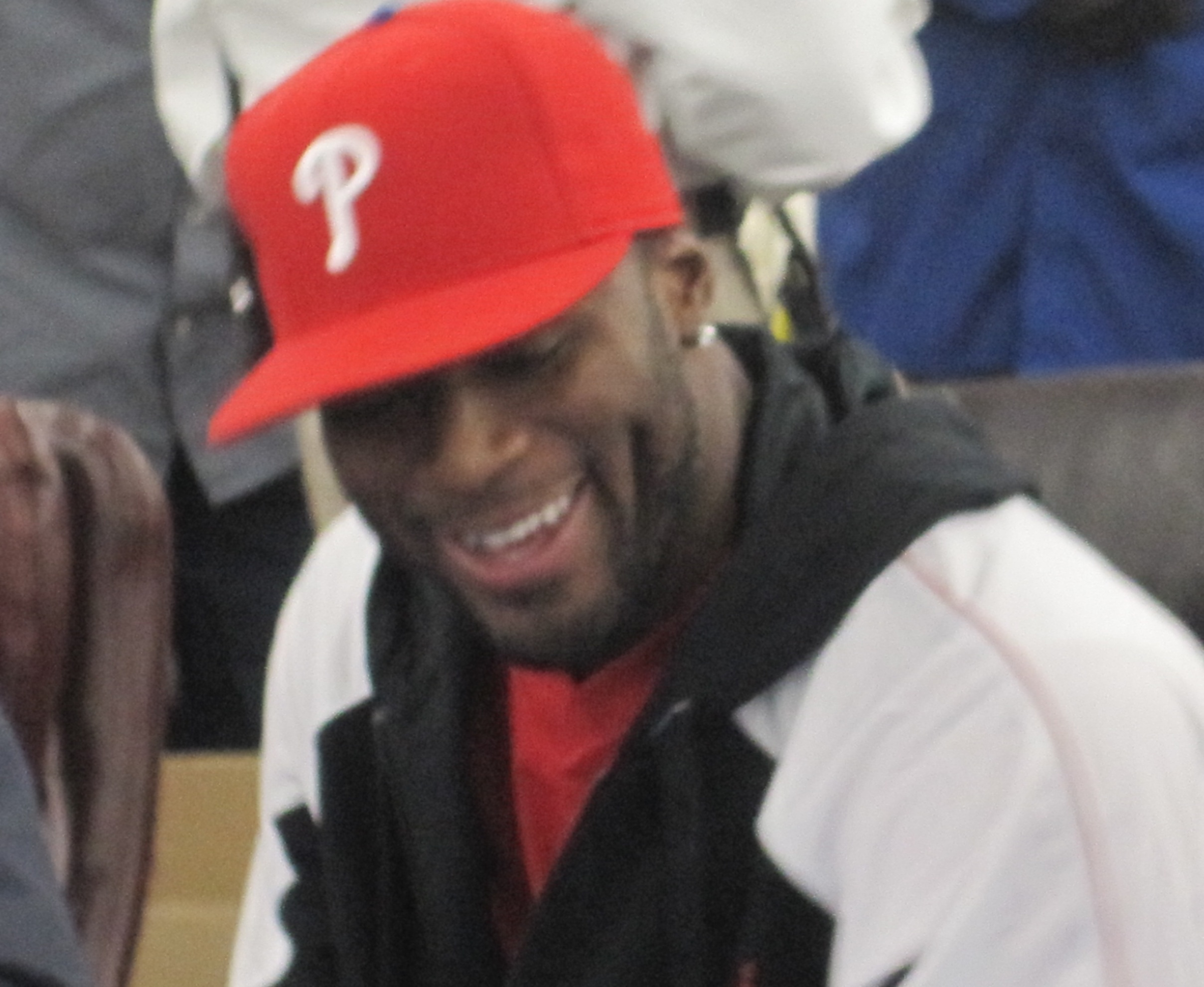 Indianapolis Colts cornerback Kelvin Hayden at Marlin Jackson's Fight for Life Foundation toy drive at Wal-Mart in Carmel, Indiana on Saturday, December 18, 2010.